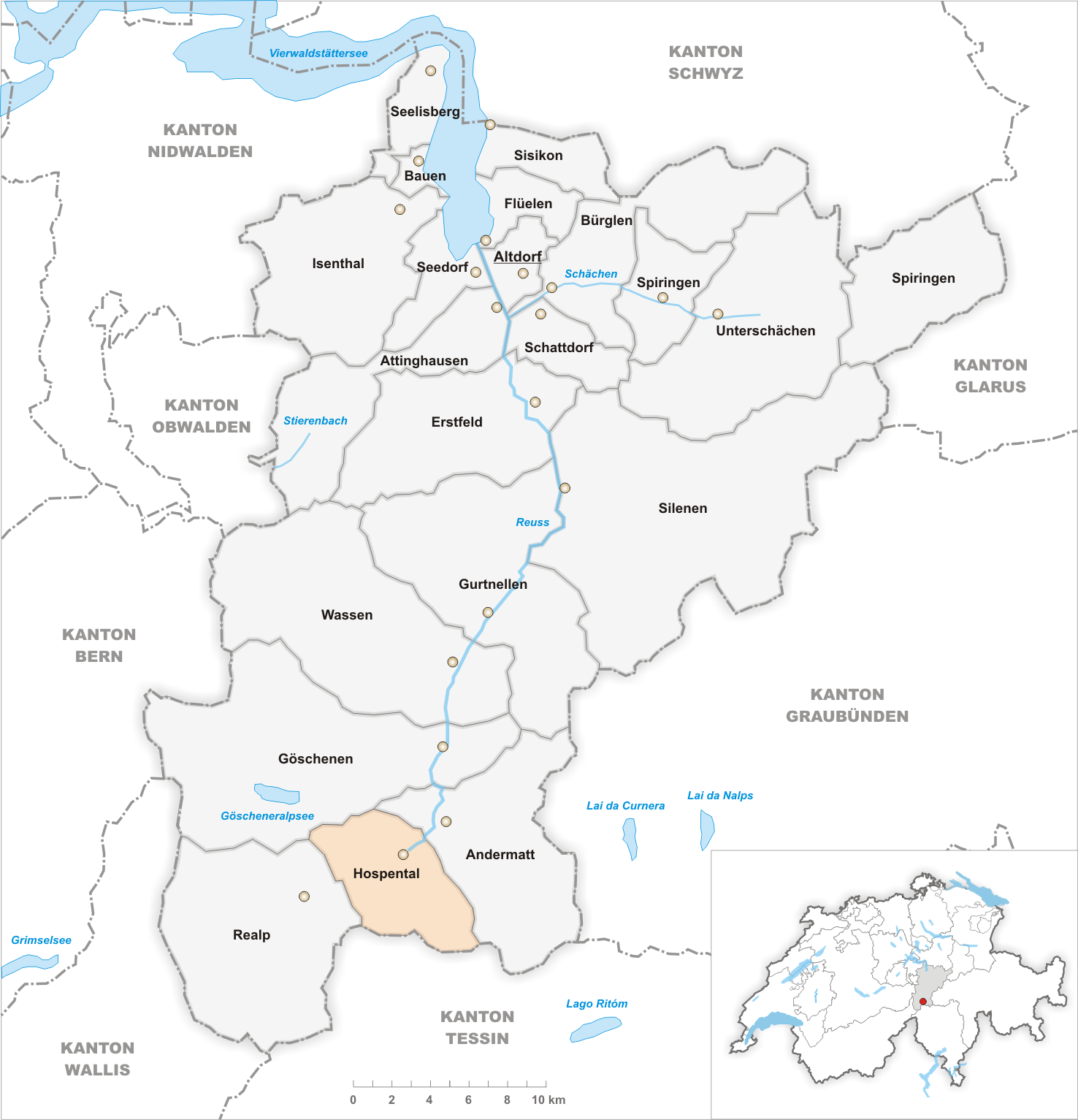 Municipality Hospental